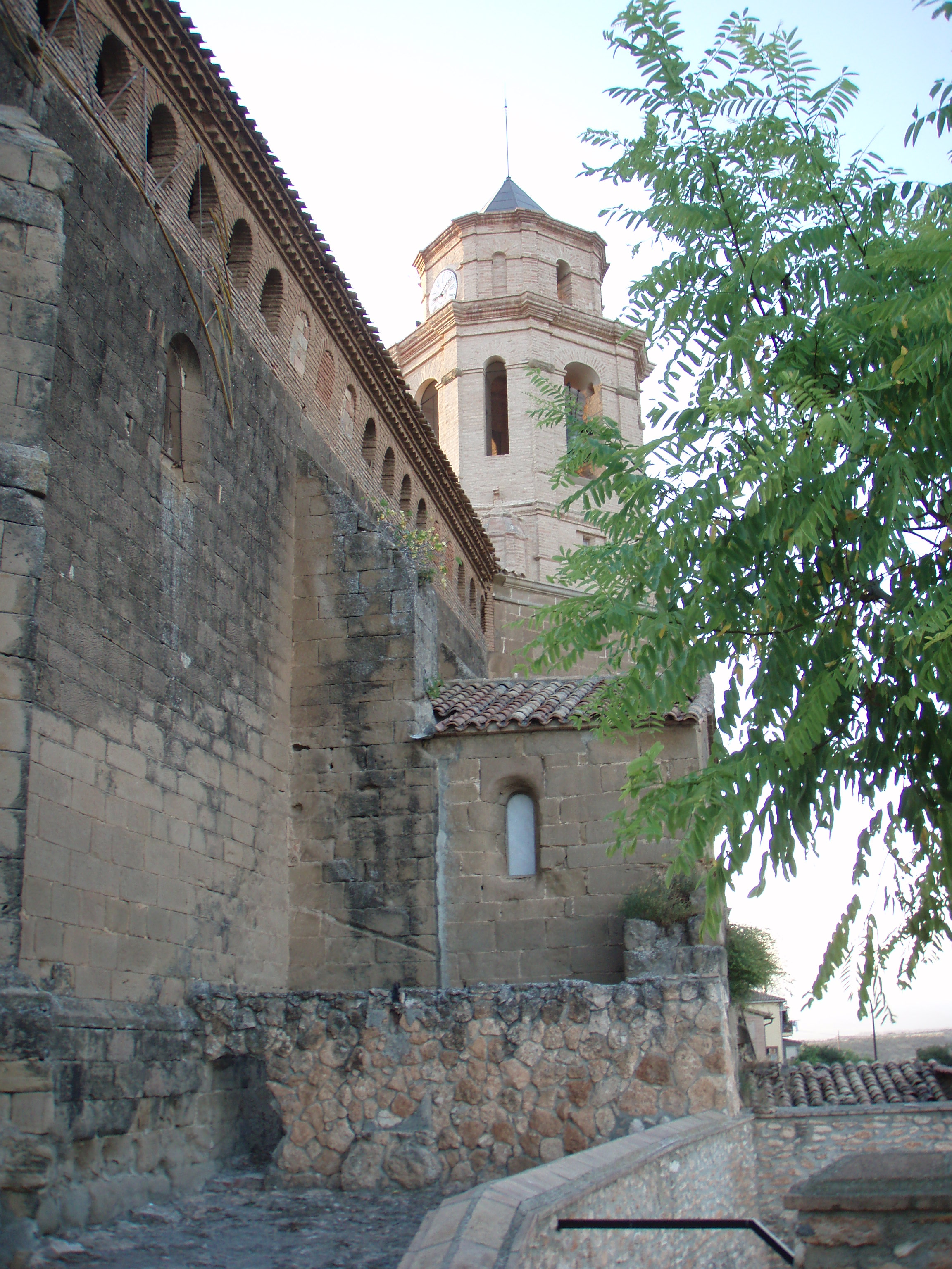 Tower of Ponzano.